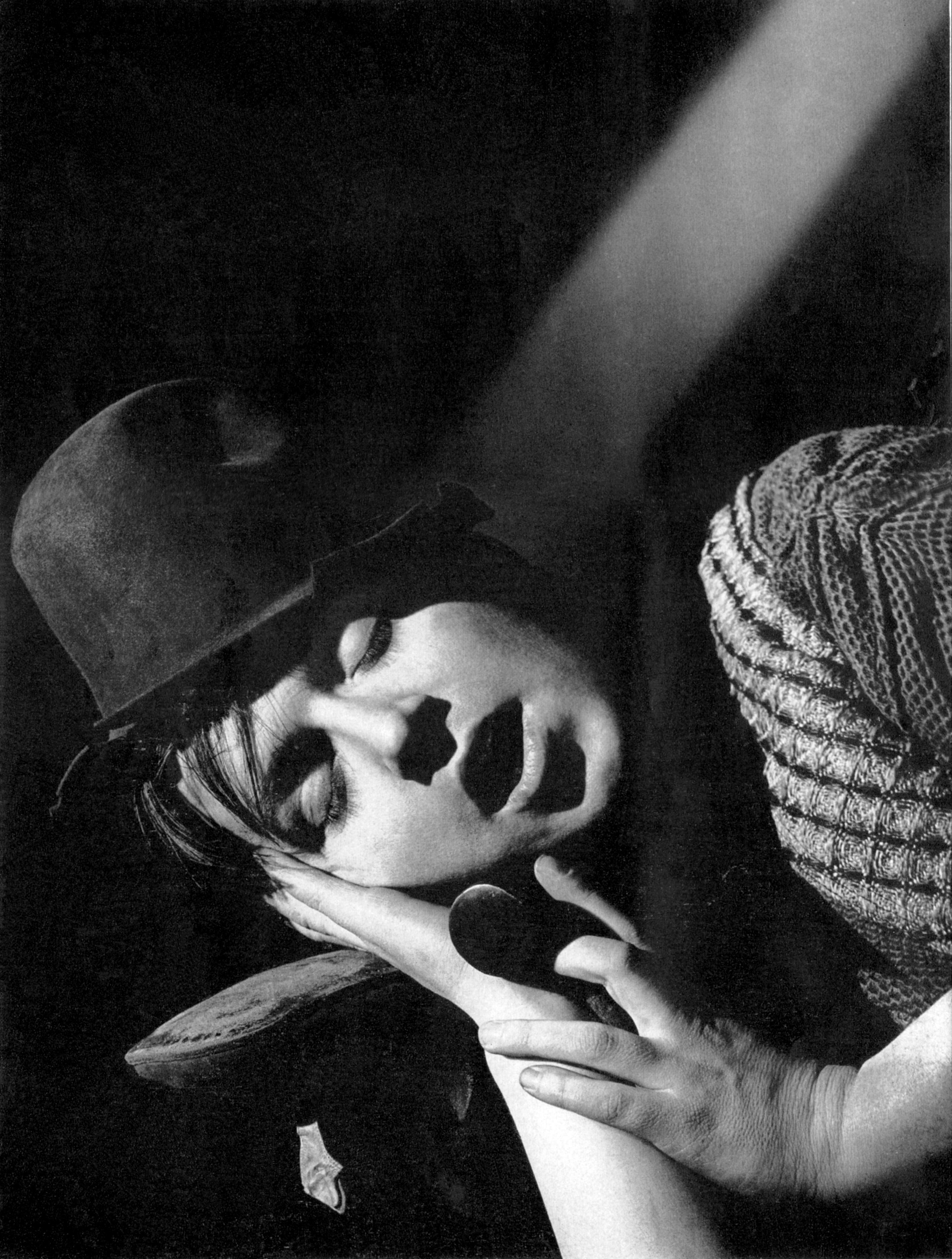 Photograph of Hiram Sherman as Firk in the Mercury Theatre production of The Shoemaker's Holiday